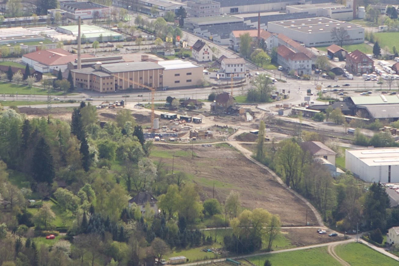 Construction site south of the 'Scheibengipfeltunnels' in Reutlingen.